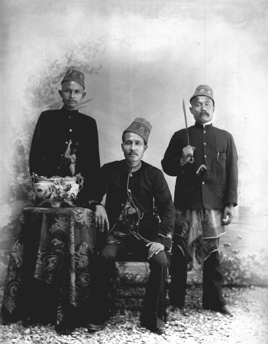 Sultan Moehamat Dawot and bodyguards